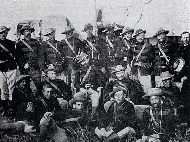 Officers of the Pioneer Corps, probably c1890.